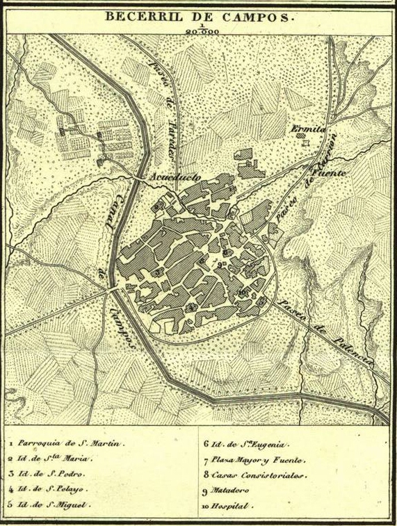 Map of Becerril de Campos cropped from the 1852 province of Palencia map by Francisco Coello